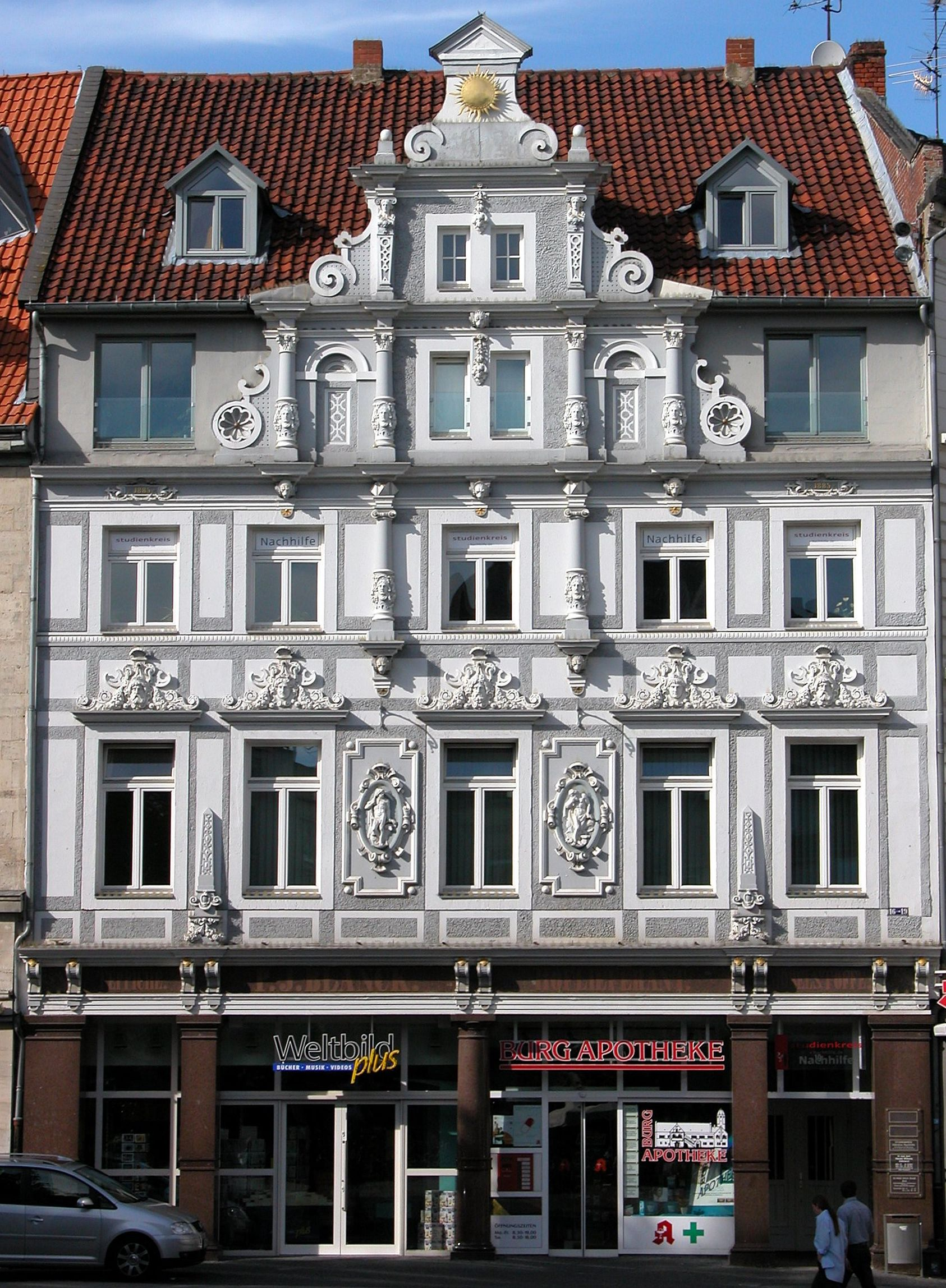 Braunschweig, Germany: “Sun House” on the Coal Market.